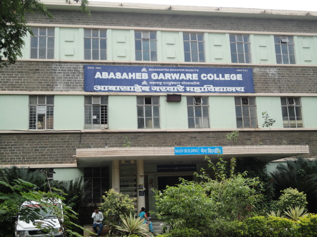 Photos Taken at Wikipedia Takes Pune Event on 7th October 2012.